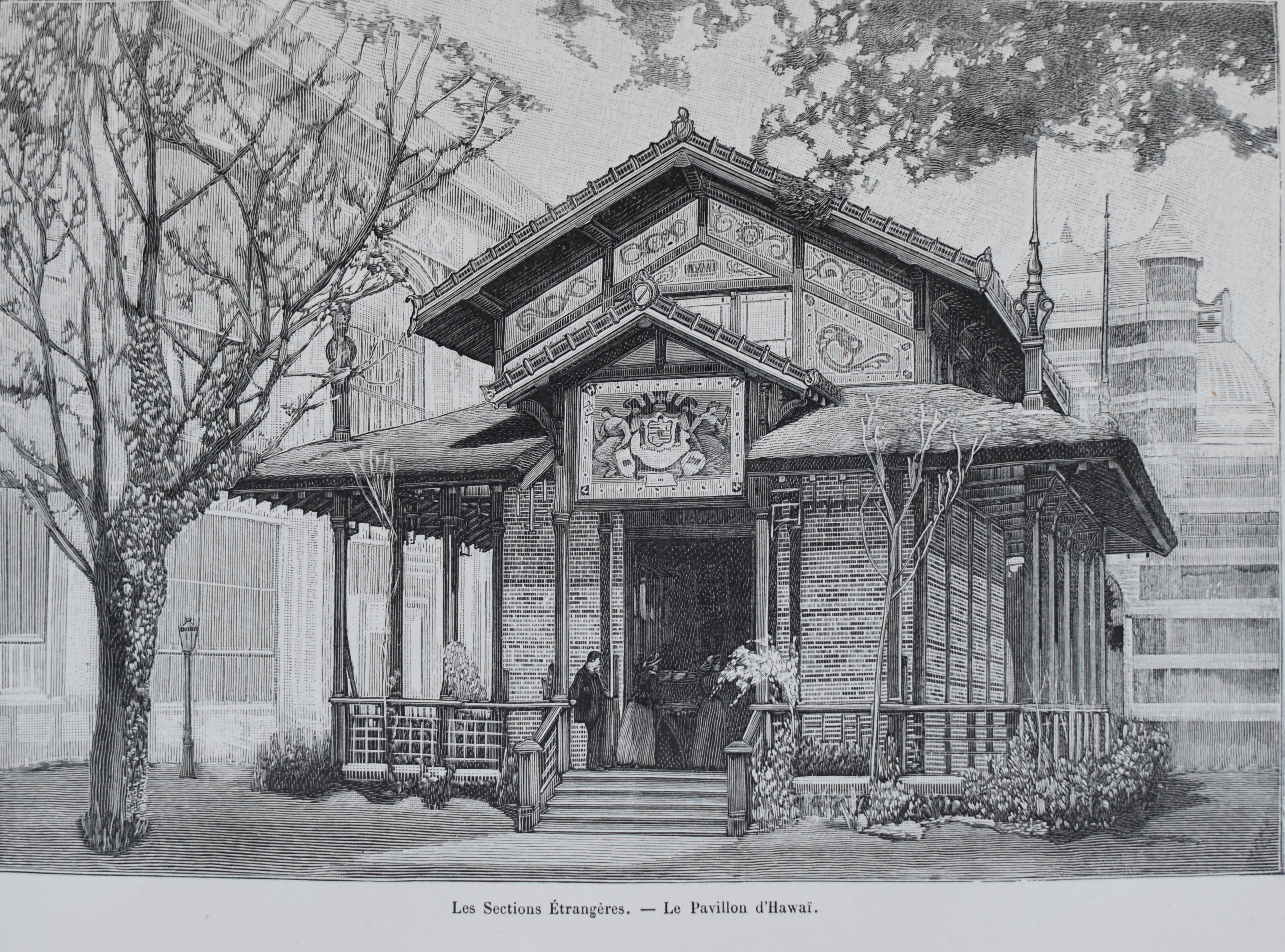 The Hawaiian Pavilion at the Exposition Universelle (World fair) of 1889, Paris, Champ de Mars.Illustration from "l'exposition Universelle de 1889, by Emile Monod, E.Dentu éditeur, Paris 1890 page 477 du tome II. Nota :The pavilion was initialy build for the Republic of Haïti.